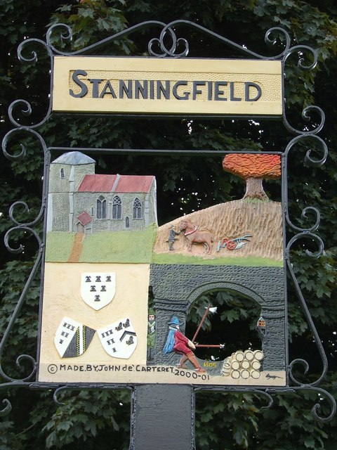 Stanningfield village sign. Stanningfield village sign Stanningfield Suffolk. For overall view of the sign see 832191